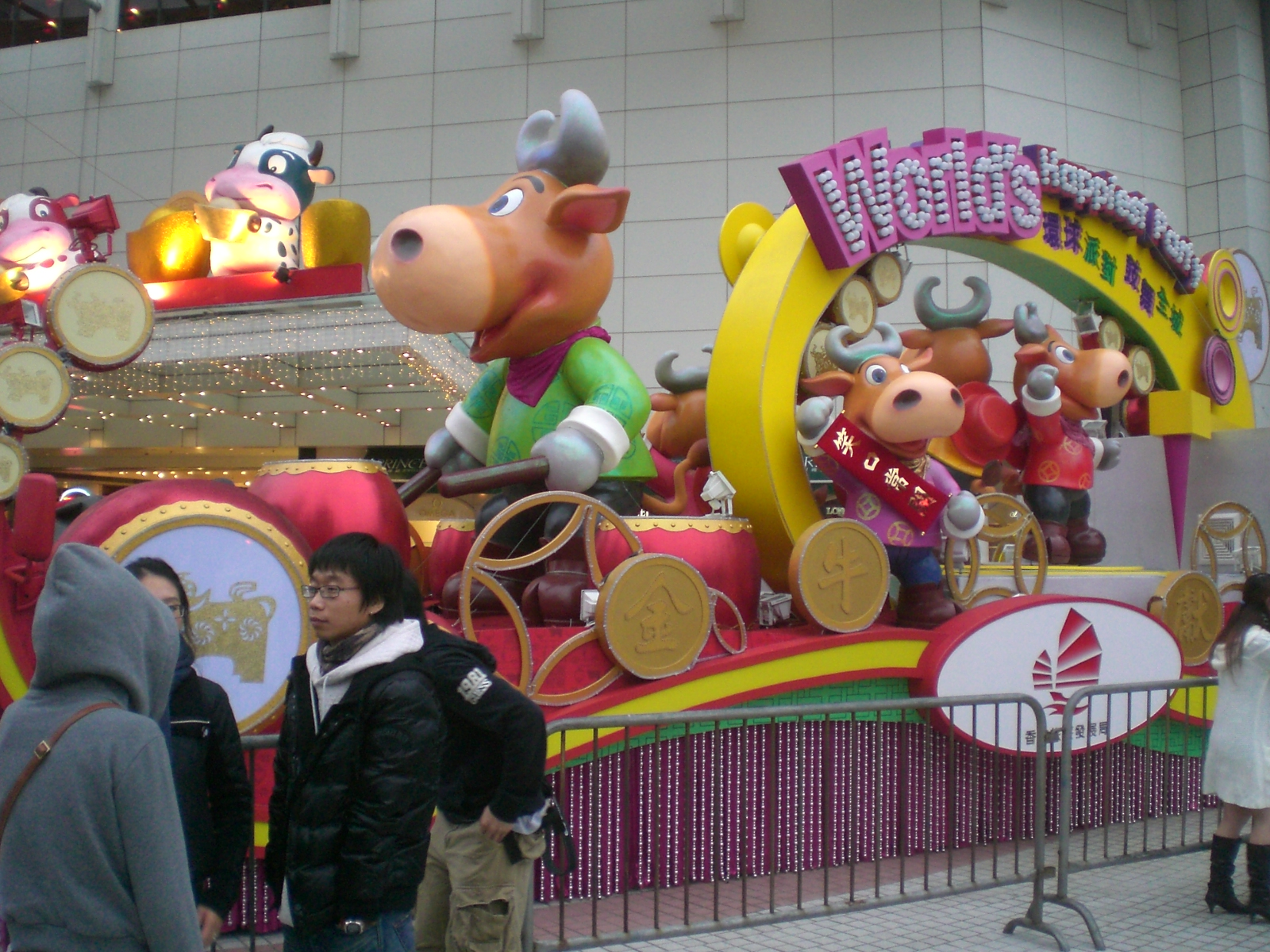 梳士巴利道+2009年香港新春花車巡遊+香港旅遊發展局+國泰航空贊助 [1] [2]